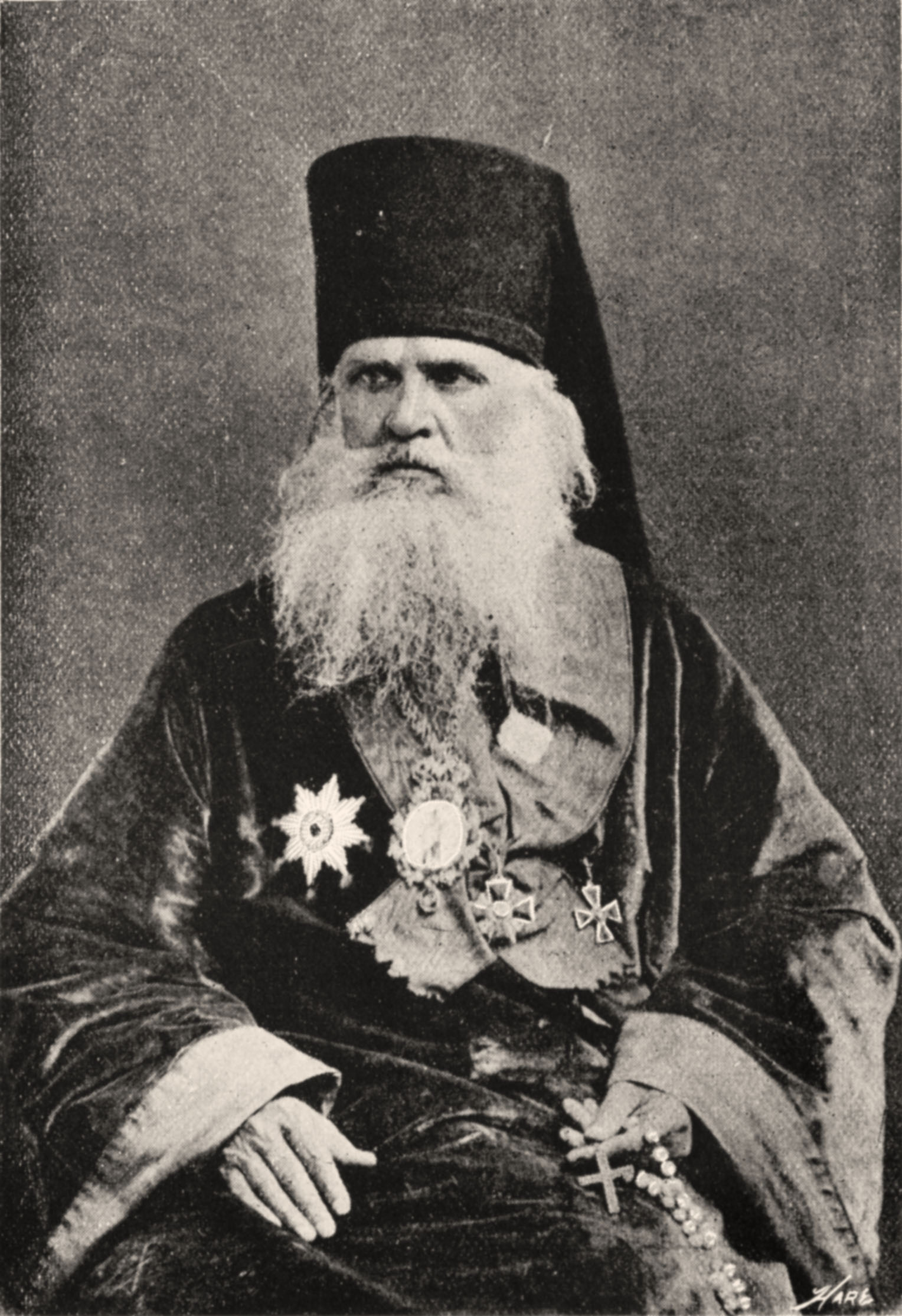 Meletie, Bishop of Yakutsk and Viluisk. Photo from Kate Marsden's book "On Sledge and Horseback to the Outcast Siberian Lepers".